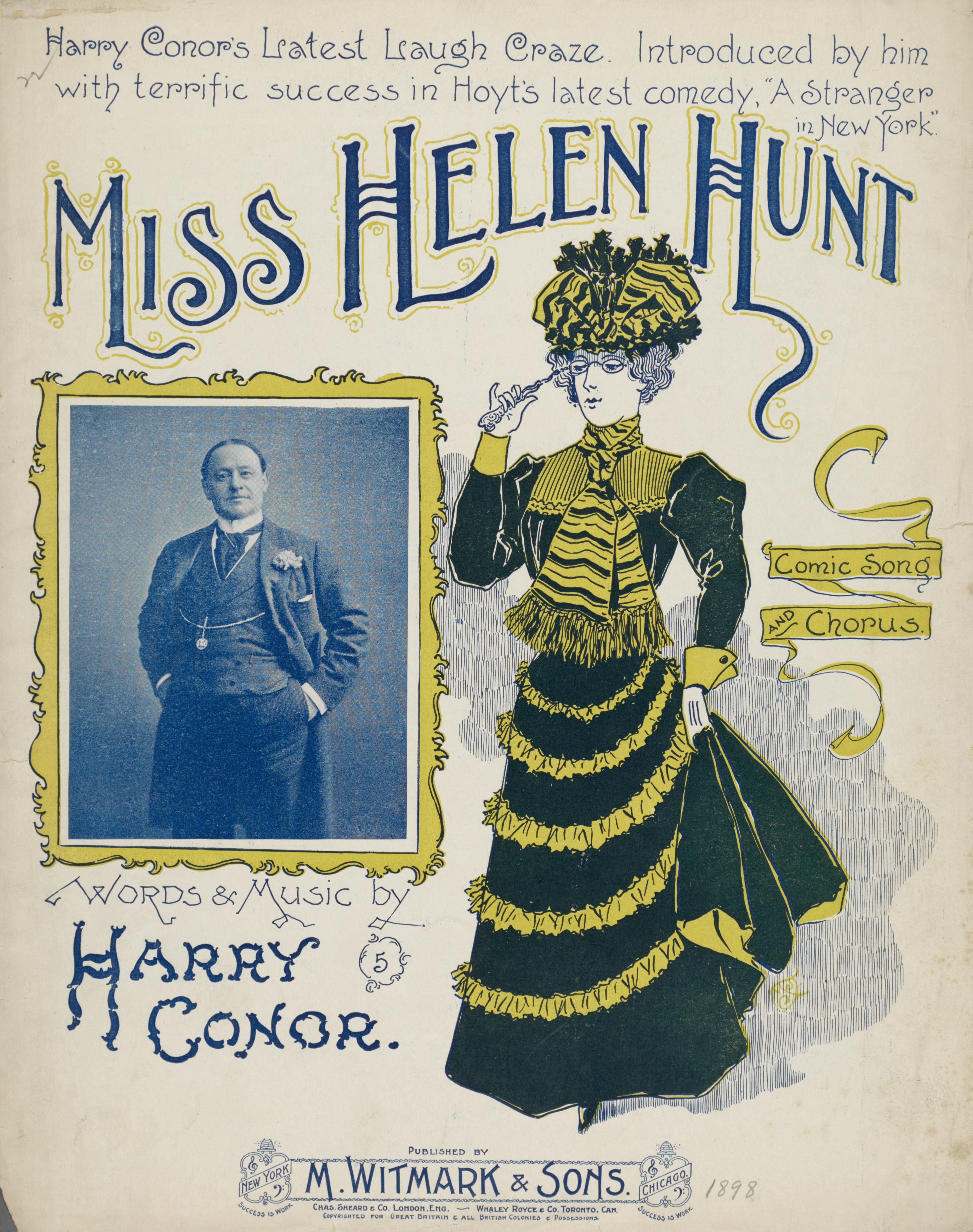 On cover: Harry Conor; A woman holding opera glasses. Comedy "A stranger in New York" Statement of responsibility : words and music by Harry Conor.